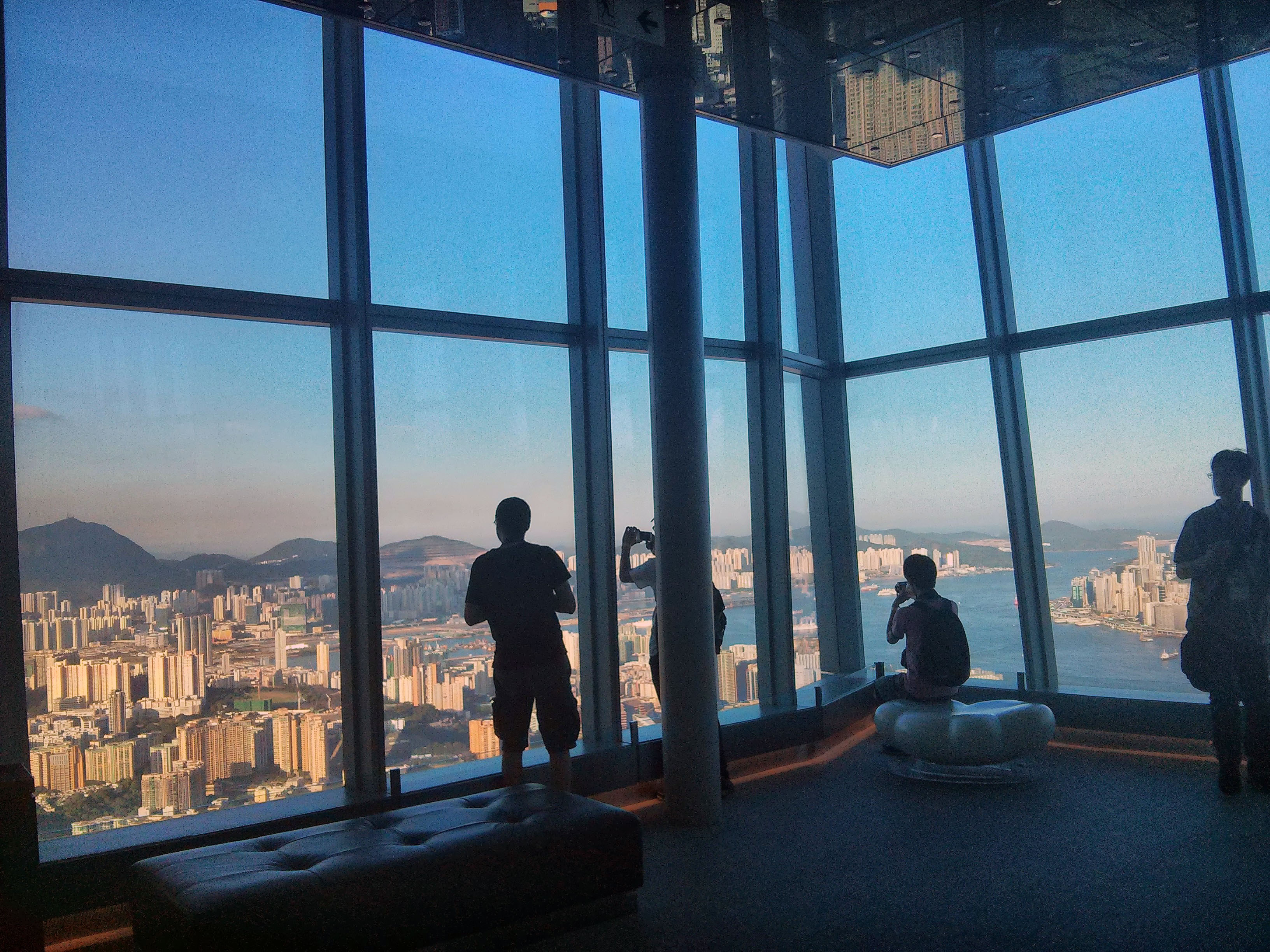 Wikimedians taking photos at the Sky100 observation deck at the Wikimania 2013 opening party